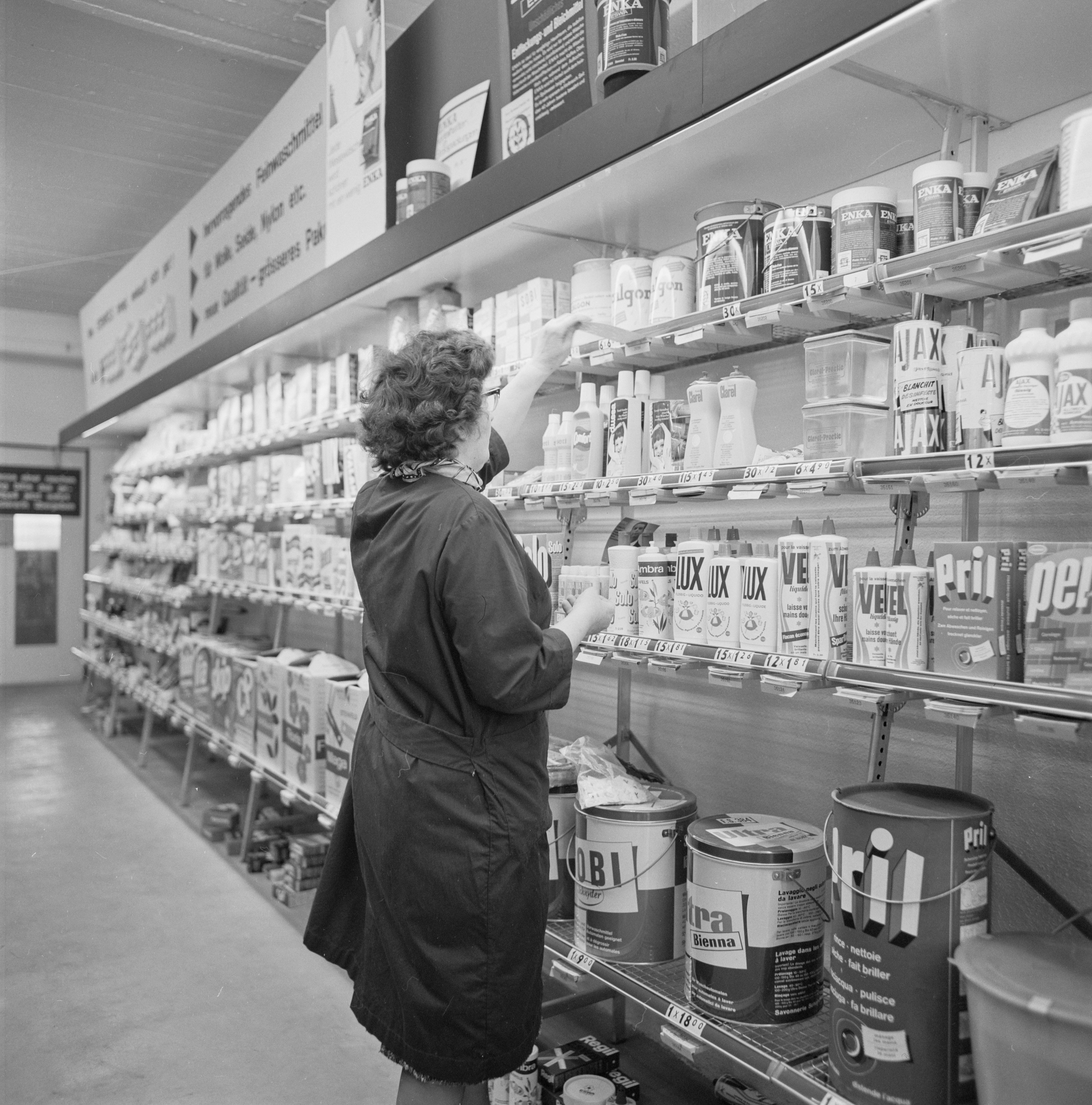 Cash and Carry store of the Swiss Usego chain, 1964